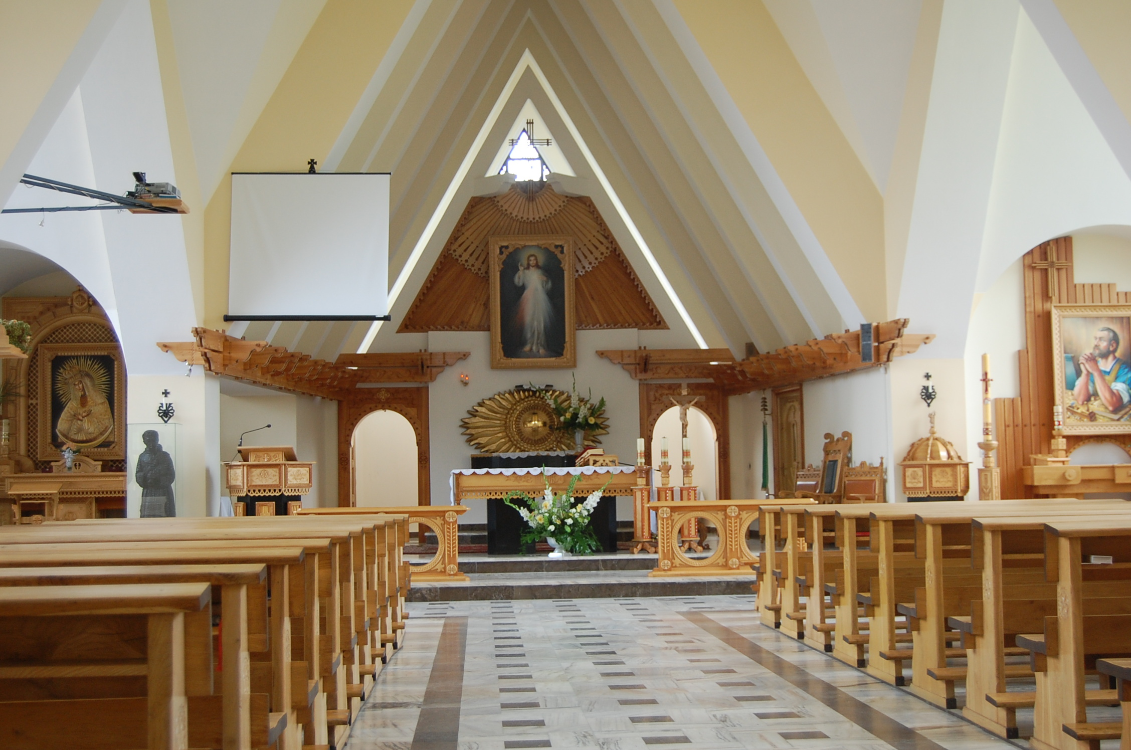 Church in Bańska Niżna inside